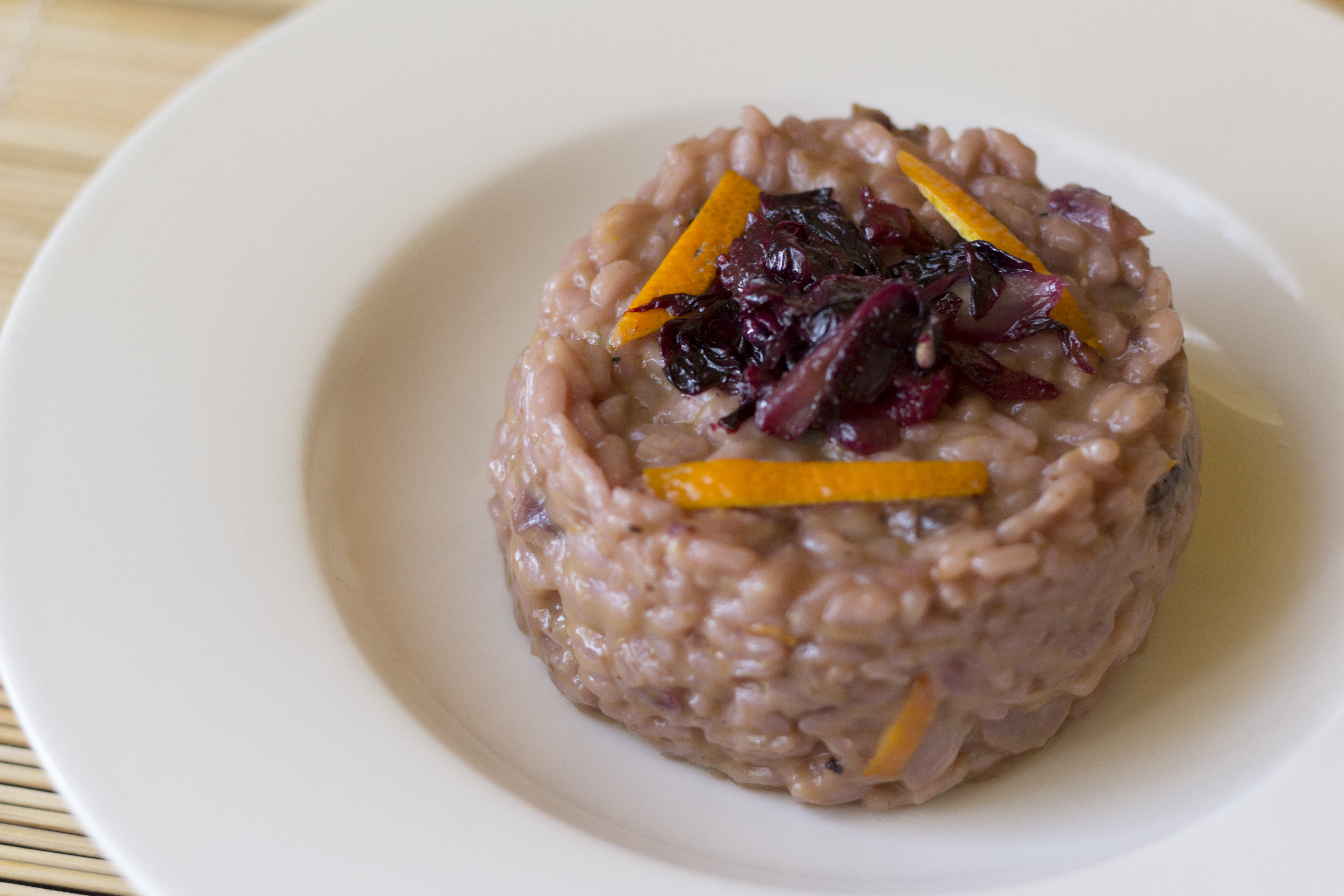 Risotto with radicchio and oranges (Recipe in italian with translation available: )